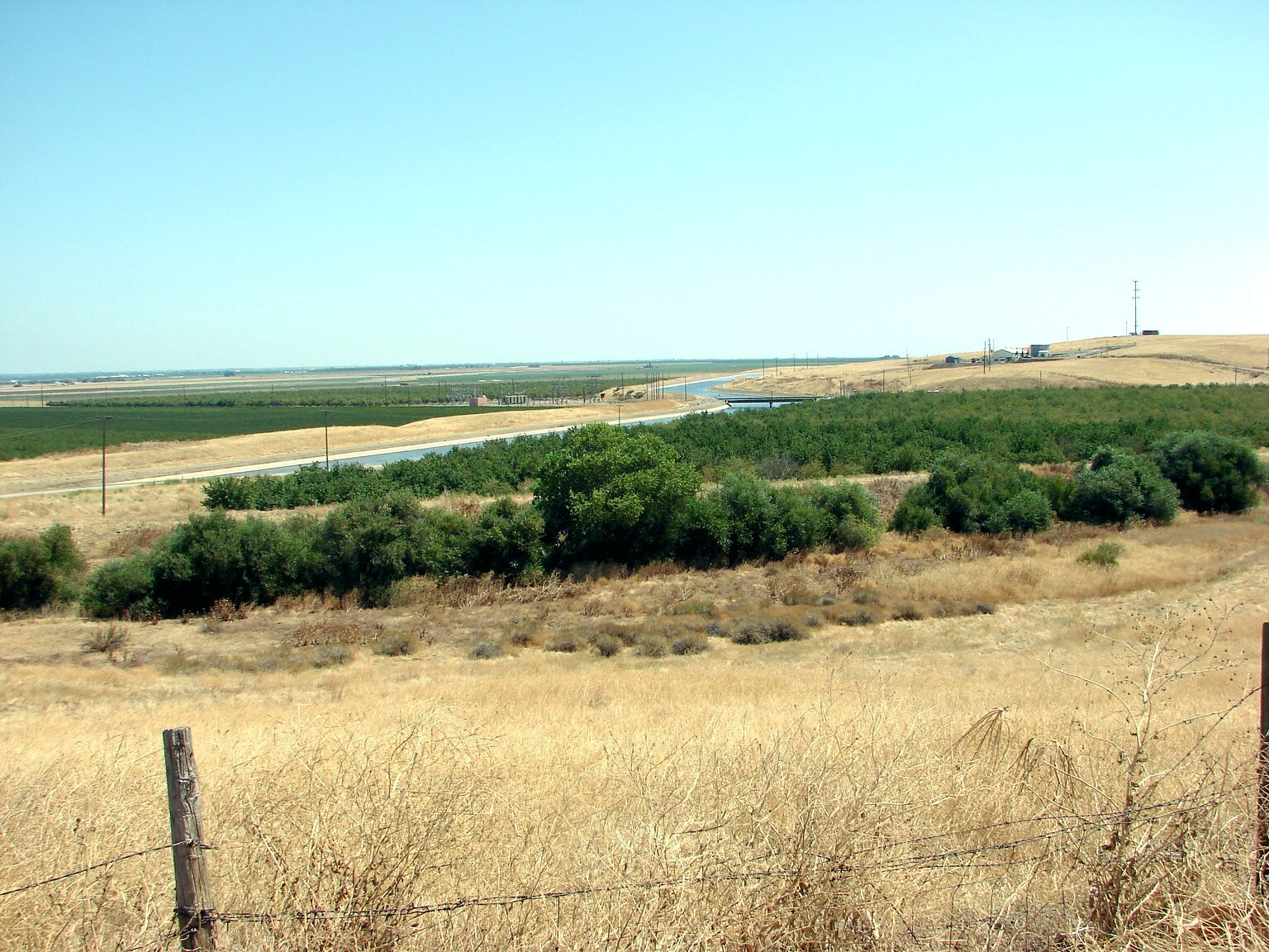 (1 in a 3-picture set) This fertile valley is 450 miles long. Comprising just 1% of the farm area of the country, it produces 8% of the nation's agricultural output. You can see the California Aqueduct flowing south to Los Angeles. If not for this canal, the fertile valley would not be able to produce.